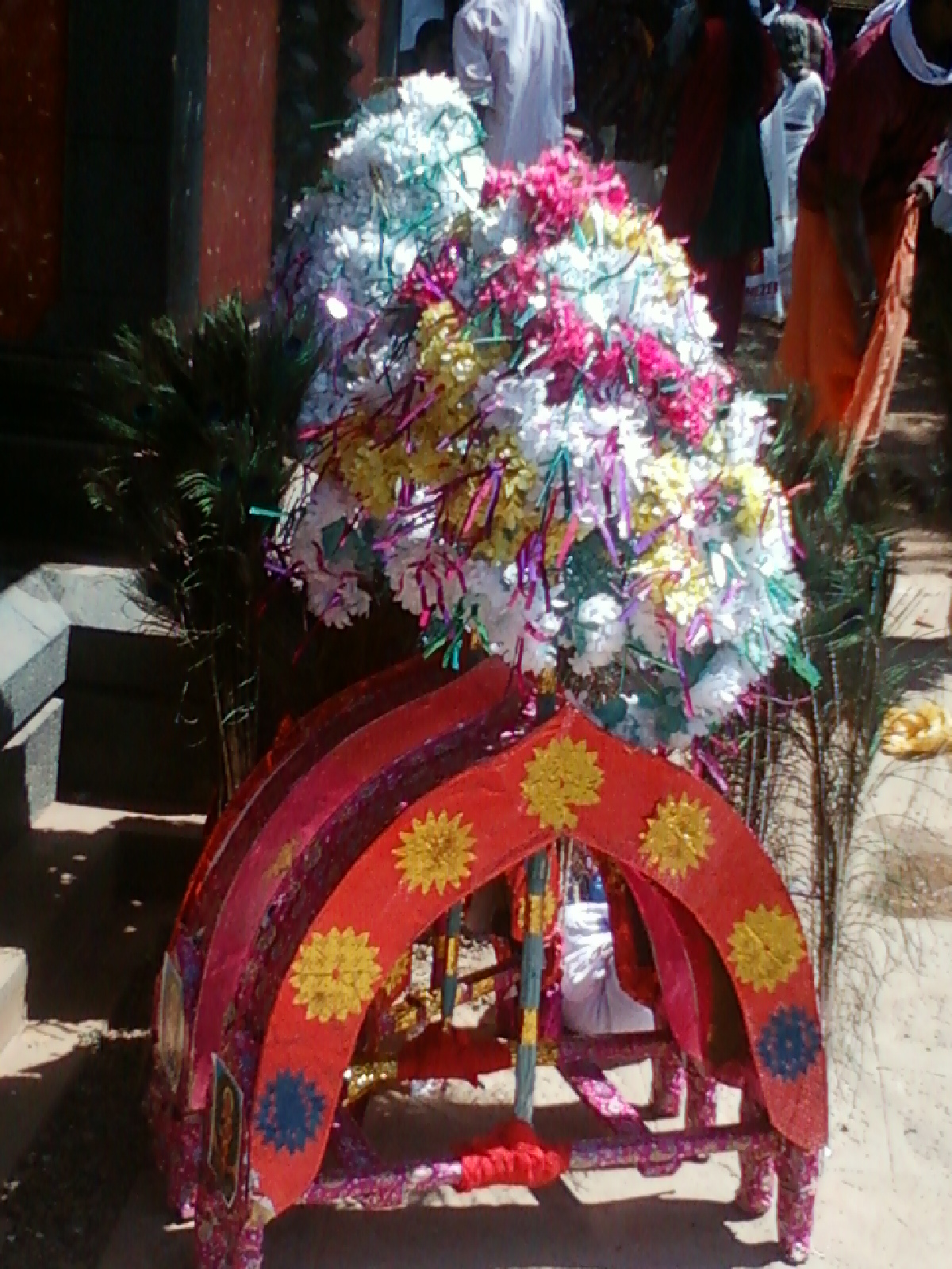 Double Kavadi